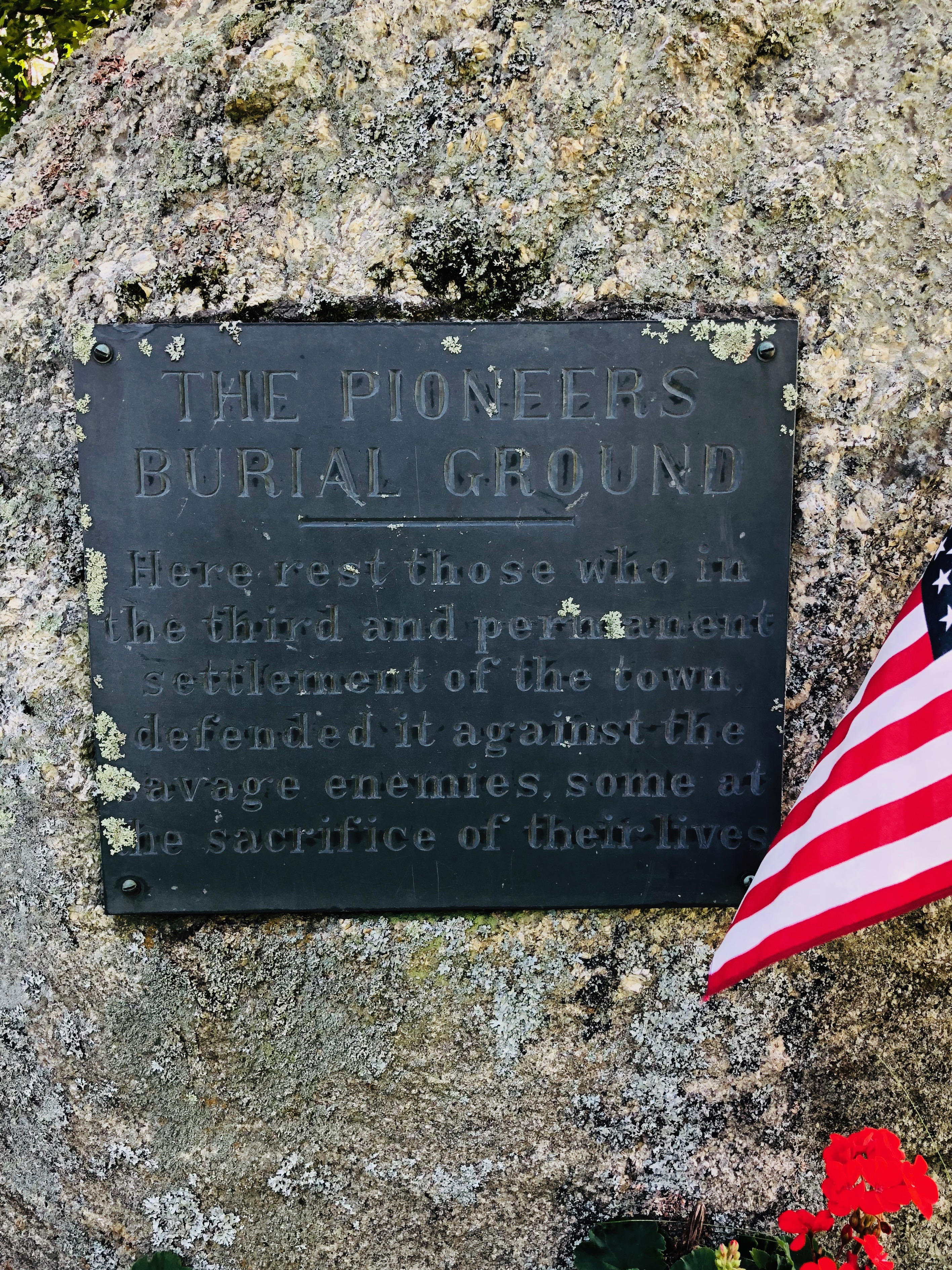 Pioneers Burial Ground marker, Yarmouth, Maine